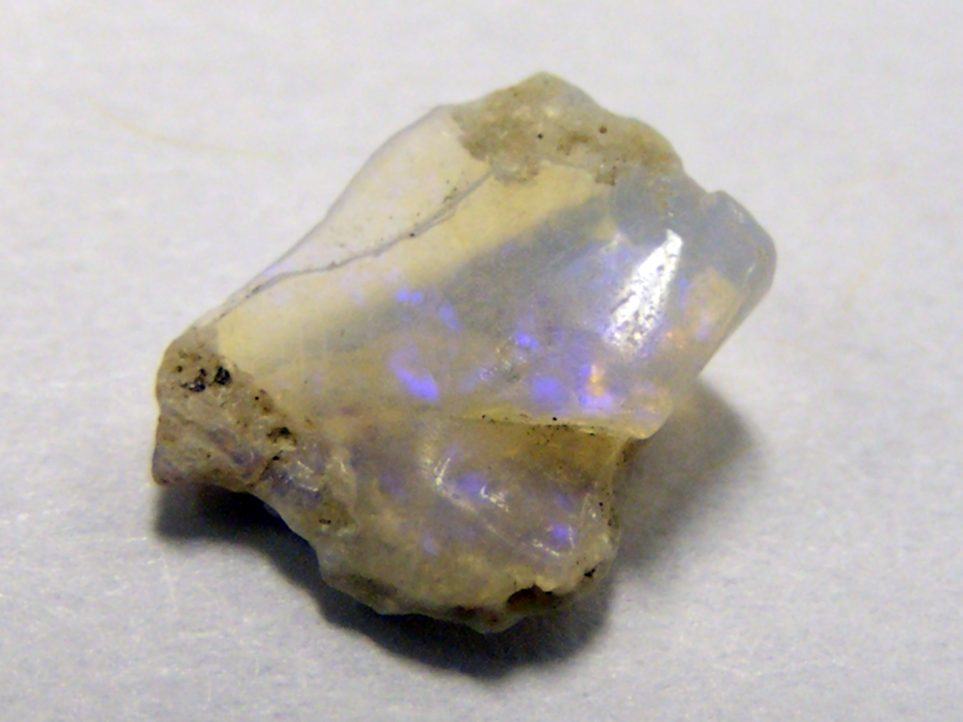 This is a picture of "potch" which is the mineraloid gel of opal without hardly any "fire" or just the beginnings of fire. I found this in Andamooka South Australia.